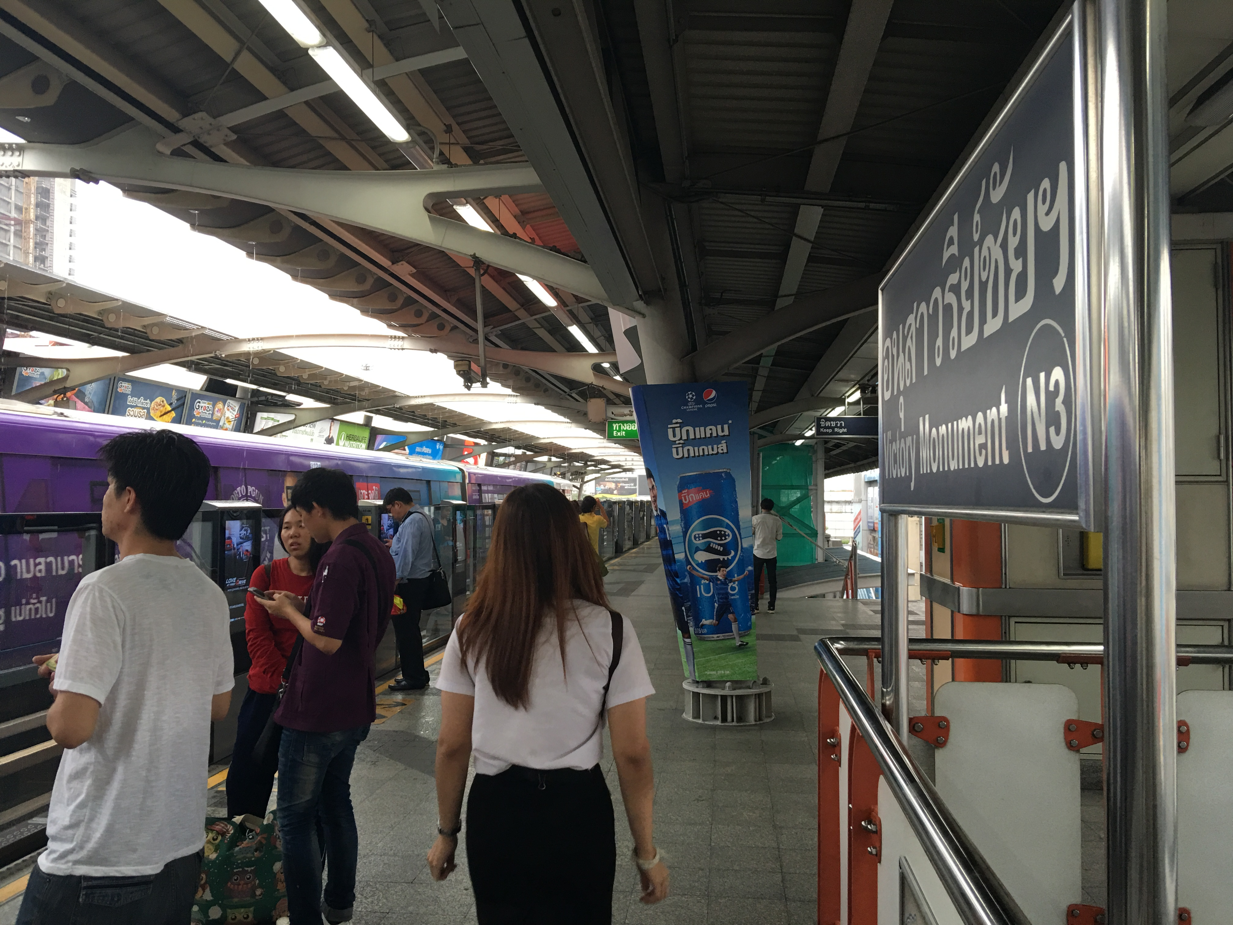 Victory Monument BTS Station on 27 July 2016